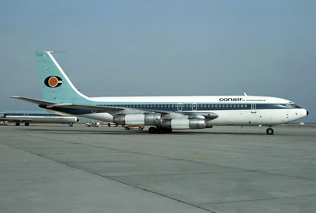 Conair of Scandinavia Boeing 720-051B OY-APV at Faro Airport